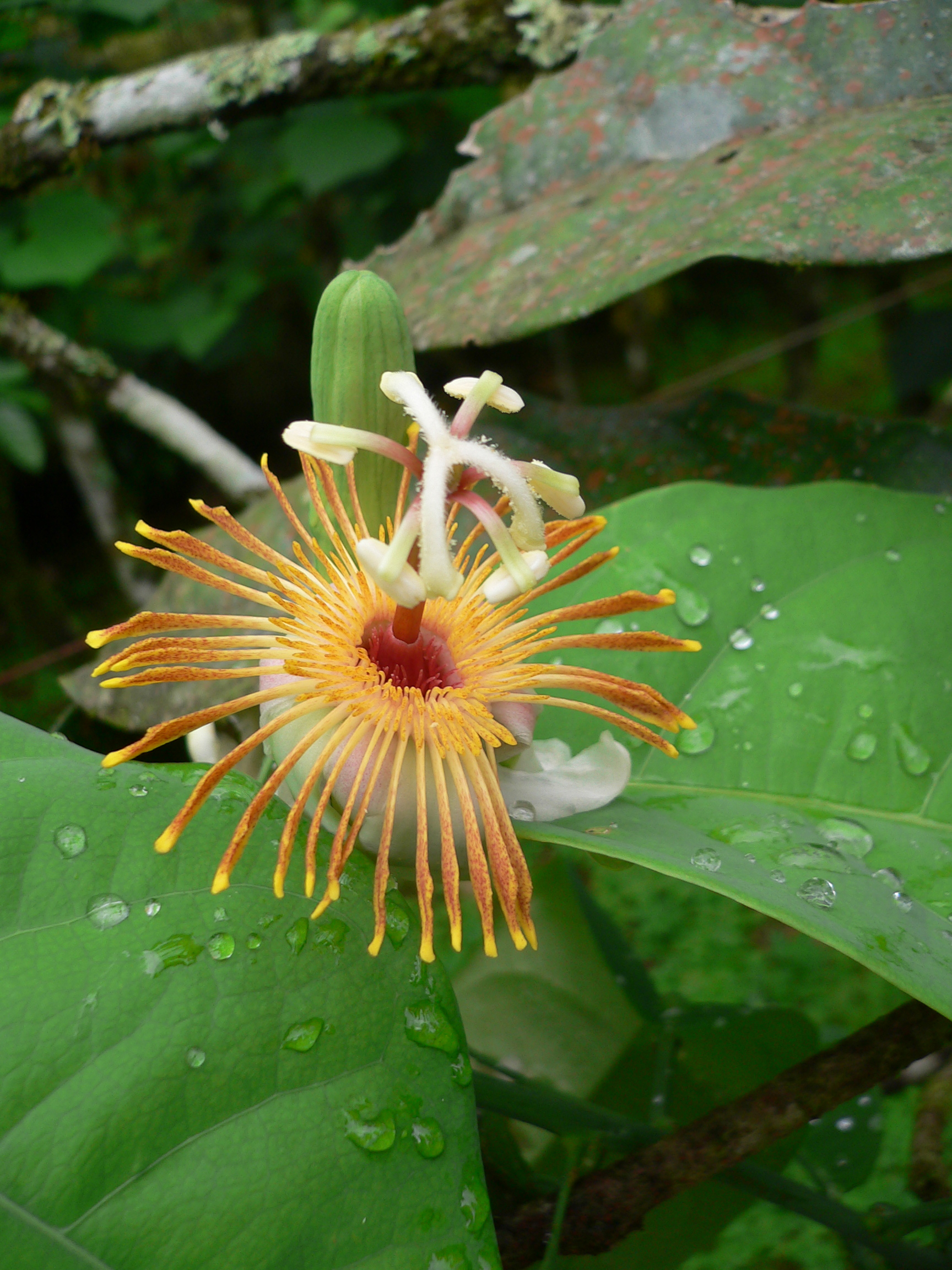 Passiflora pittieri in Barbilla National Park, Costa Rica